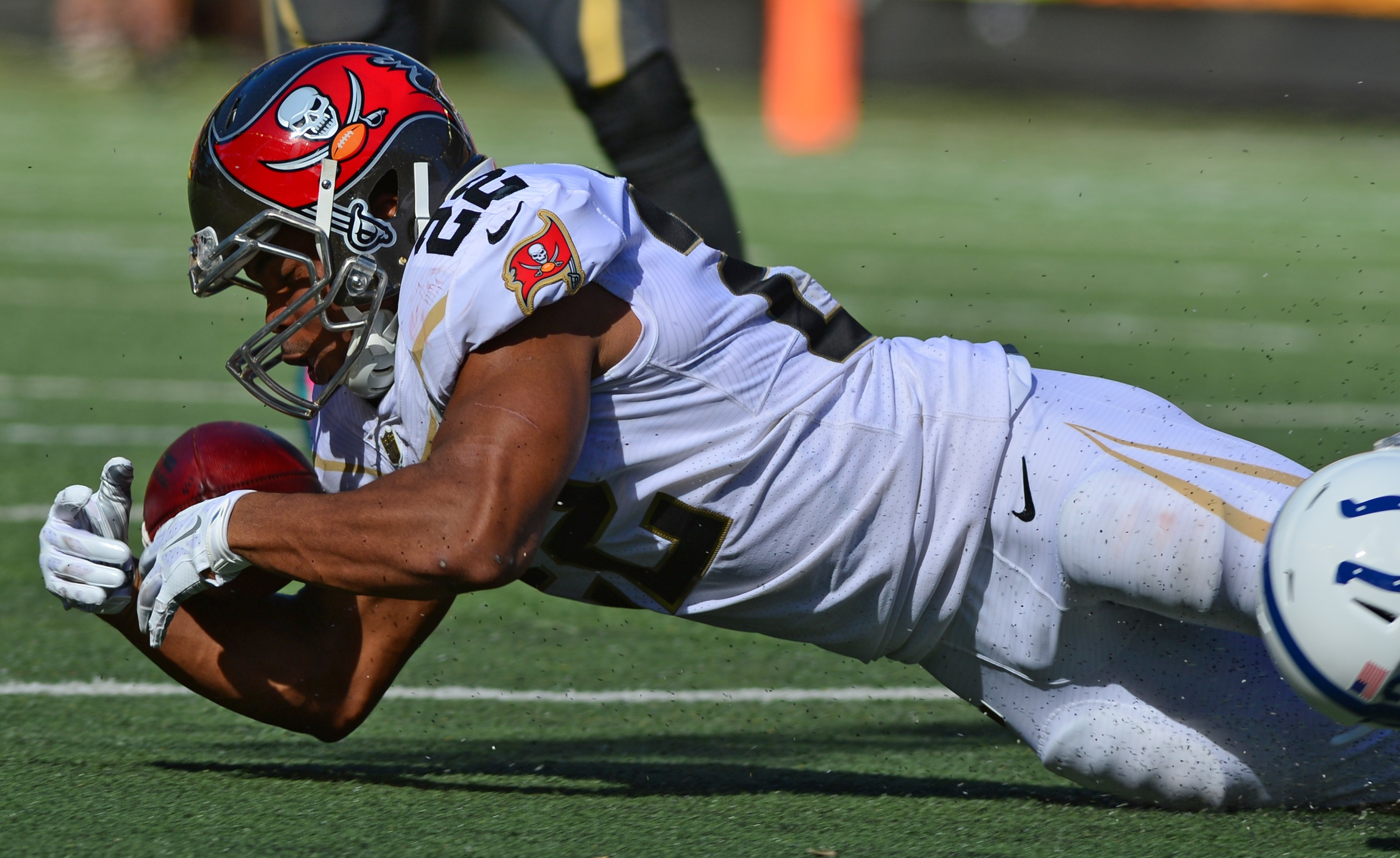 Doug Martin, Team Rice running back, recovers a loose ball during the 2016 Pro Bowl at Aloha Stadium, Hawaii, Jan. 31, 2016. Service members from all branches of the military volunteered during the Pro Bowl in a range of jobs from stage assembly to parking. (U.S. Air Force photo by Tech. Sgt. Aaron Oelrich/Released)